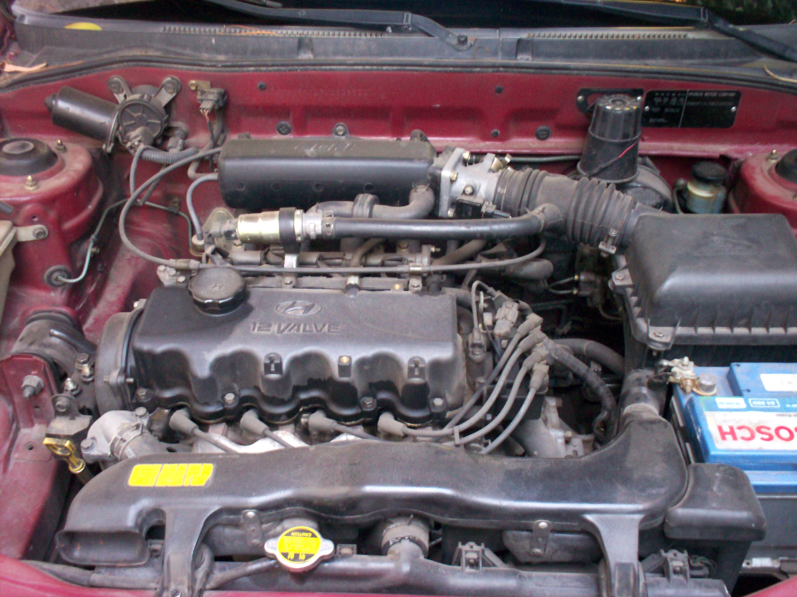 Engine bay of a 1999 Hyundai Accent L (X3) with its stock G4EH engine. The engine had 200,749 kilometers at the time the picture was taken.